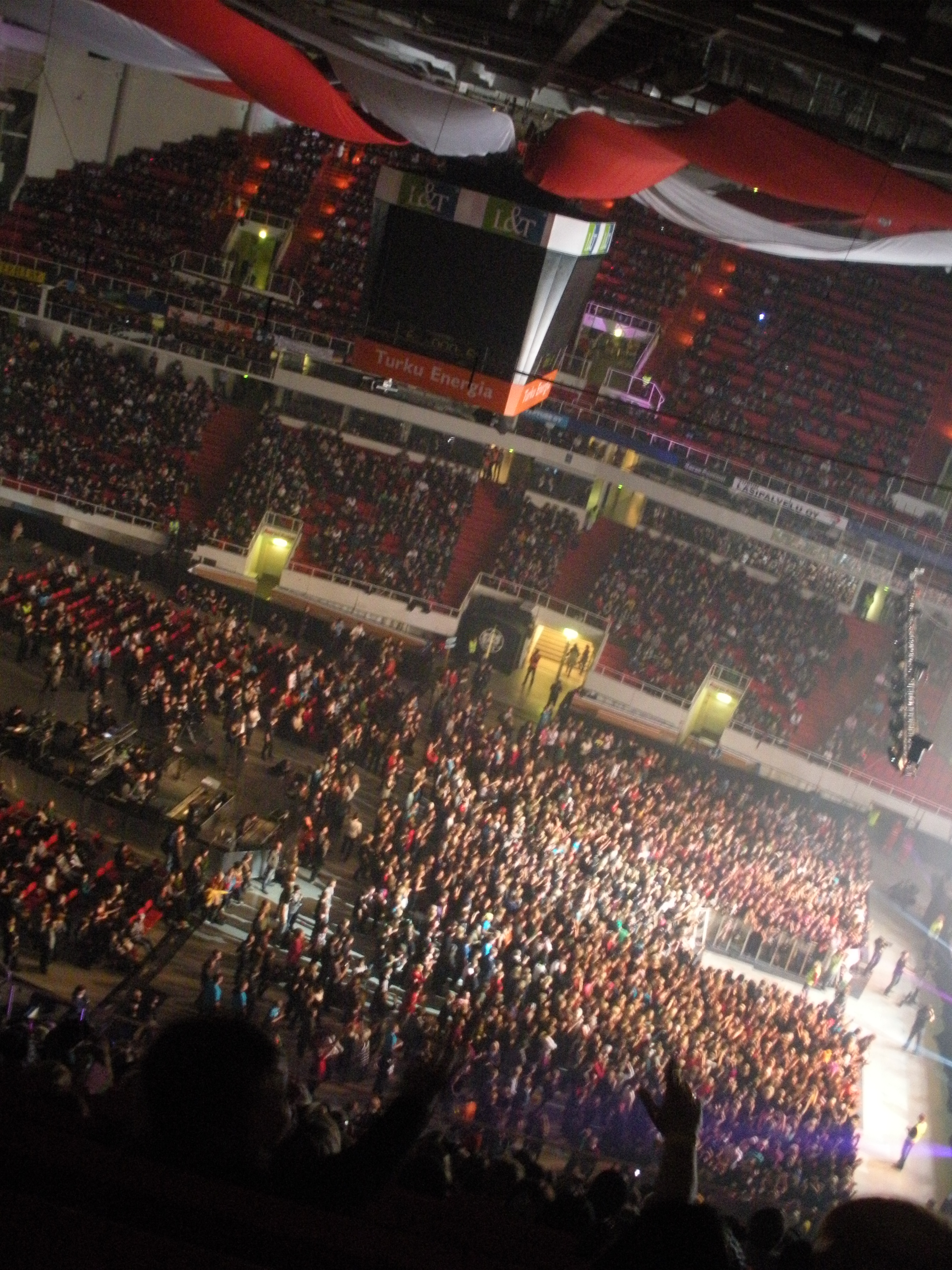 Maata Näkyvissä Finnish music festival in Turkuhalli 2009.